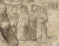 31 x 18 cm Collection: Royal Museum of Fine Arts Antwerp Inventory number: 410